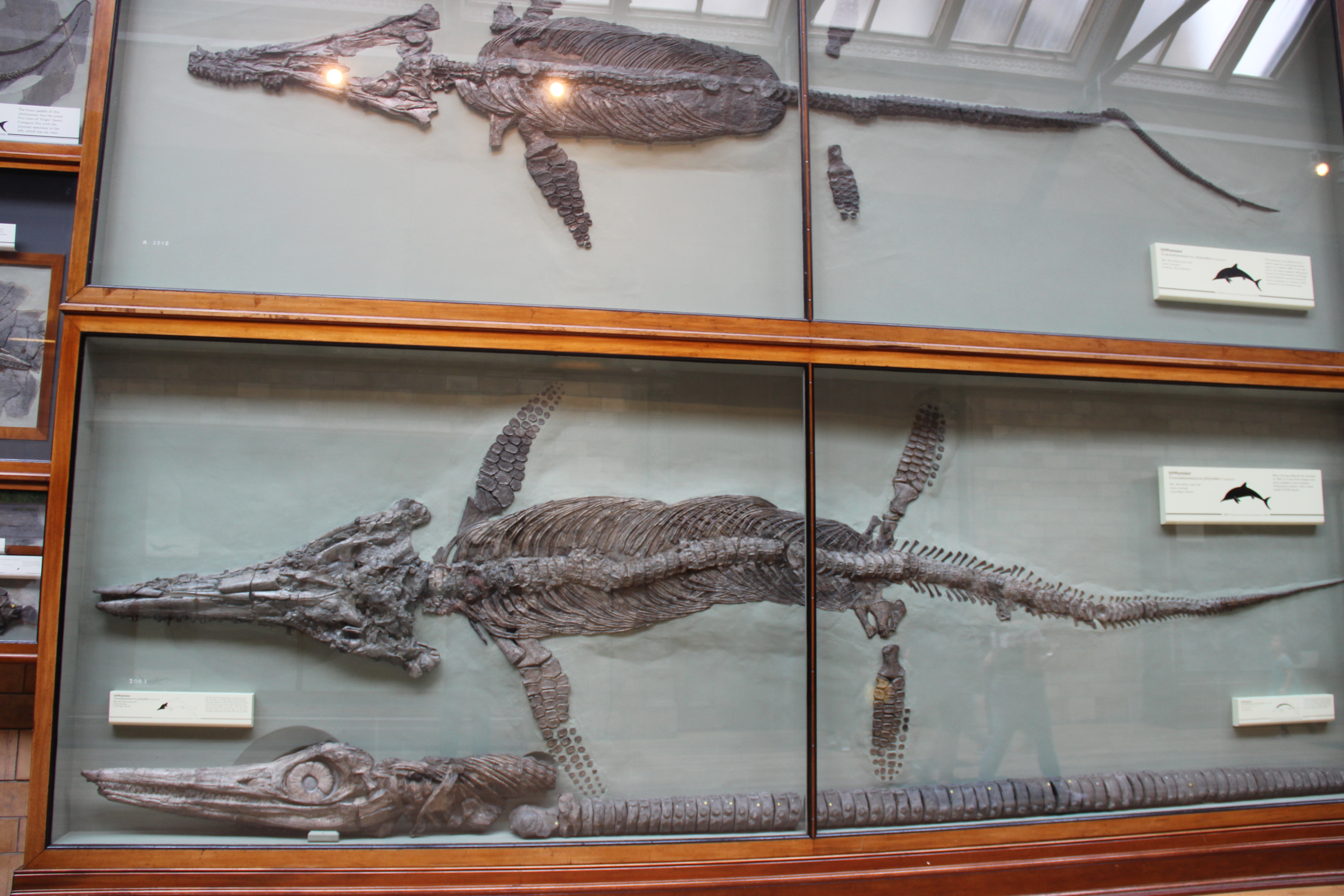 Natural History Museum, London, England, UK. Complete indexed photo collection at .